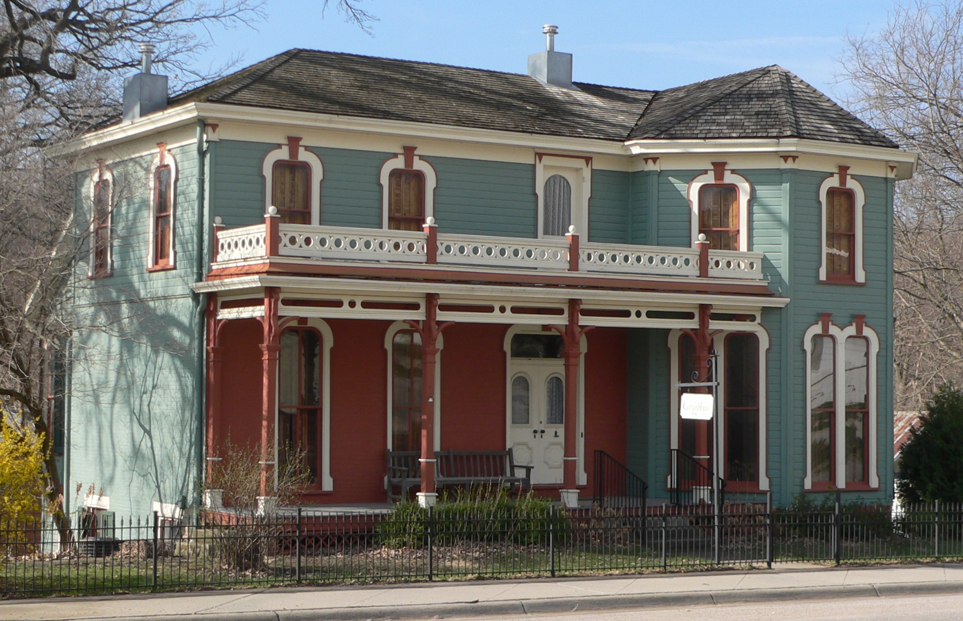 Carson house on south side of Main Street in Brownville, Nebraska; seen from the northeast. The building was constructed in 1860 as a one-story brick house; additions were made through about 1880. It is part of the Brownville Historic District, which is listed in the National Register of Historic Places.